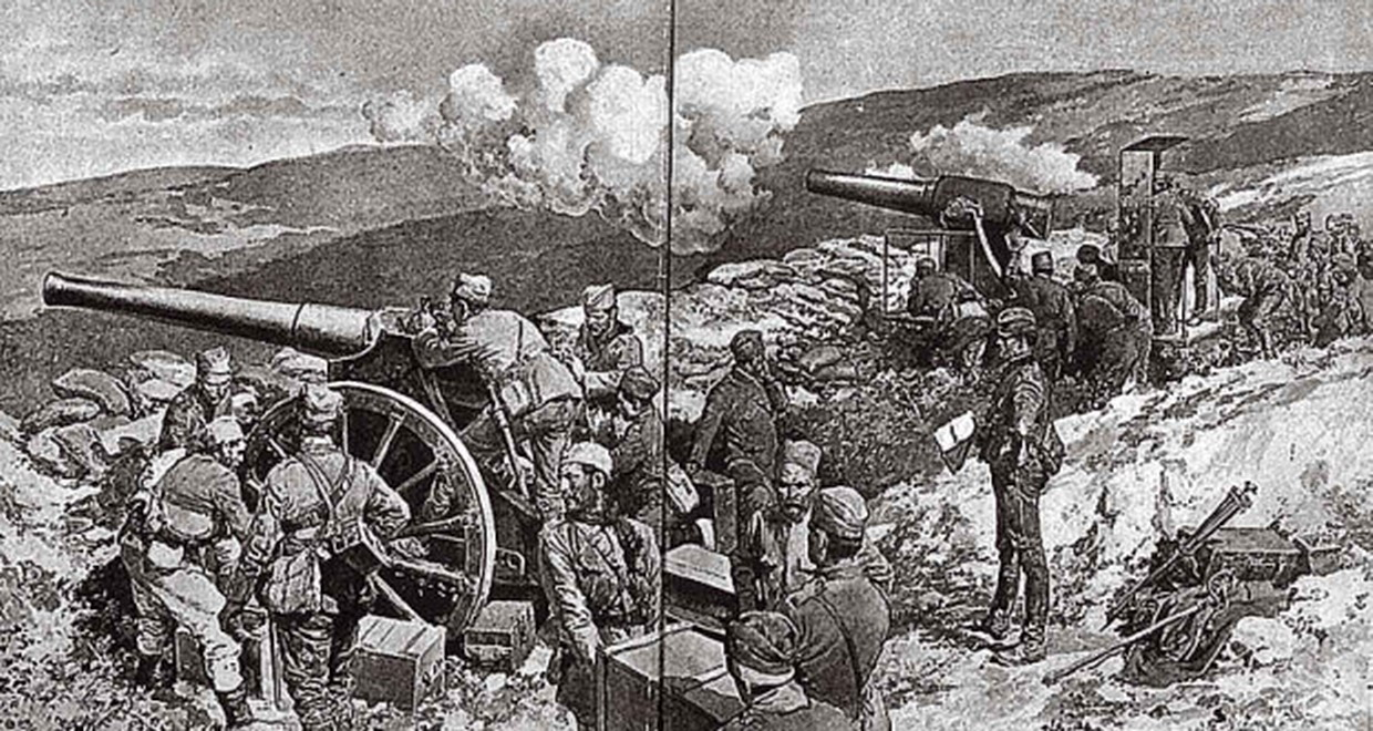 Military of the 1st Serbian Volunteer Division - an artillery unit on the front from Dobrogea